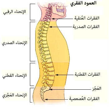 Vertebral column